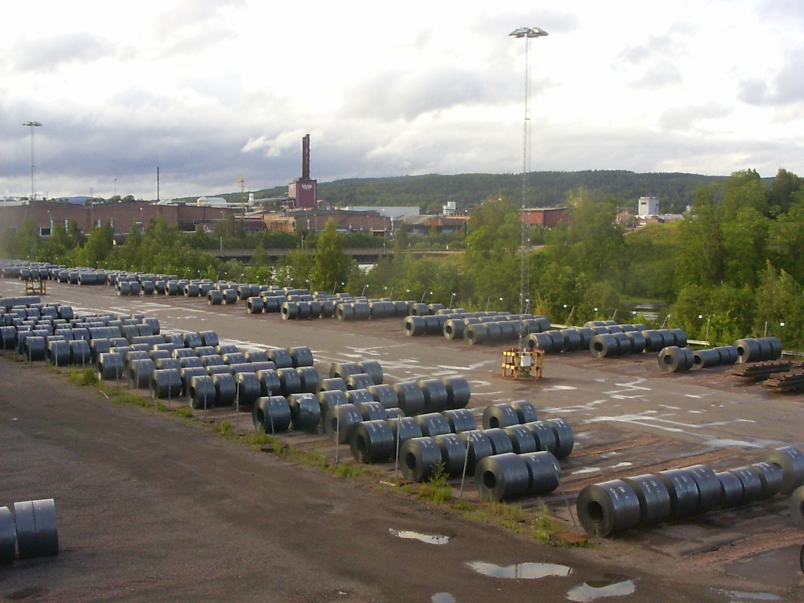 SSAB Tunnplåt Borlänge AB